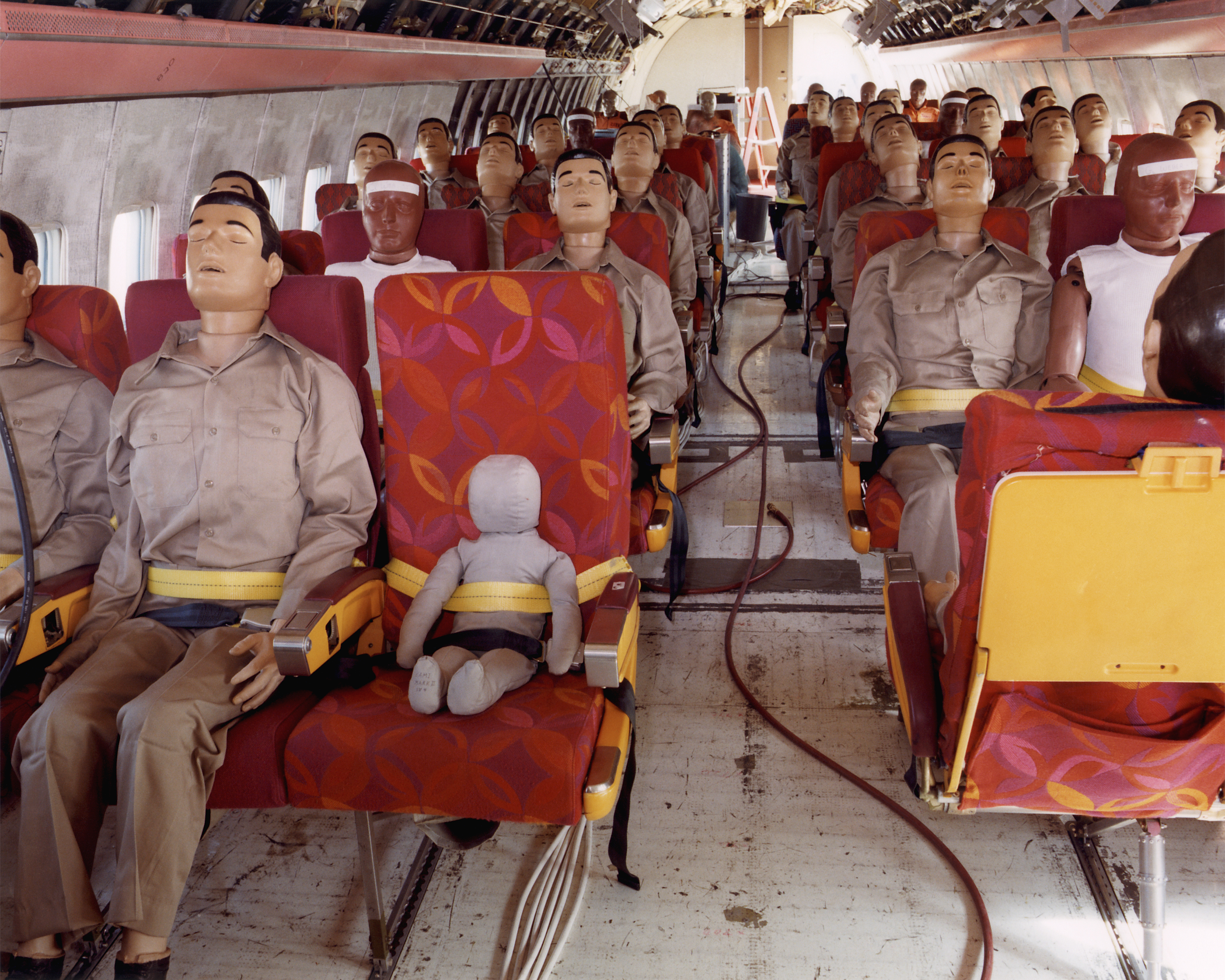 Controlled Impact Demonstration instrumented test dummies installed in plane